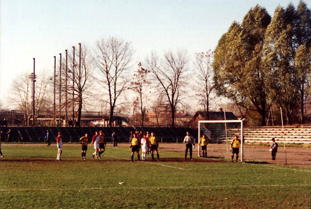 FC Velikiye Luki - FC Neftyanik Yaroslavl, October 2001.